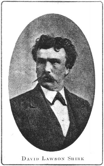 Oregon pioneer rancher David Lawson Shirk at the age of 28